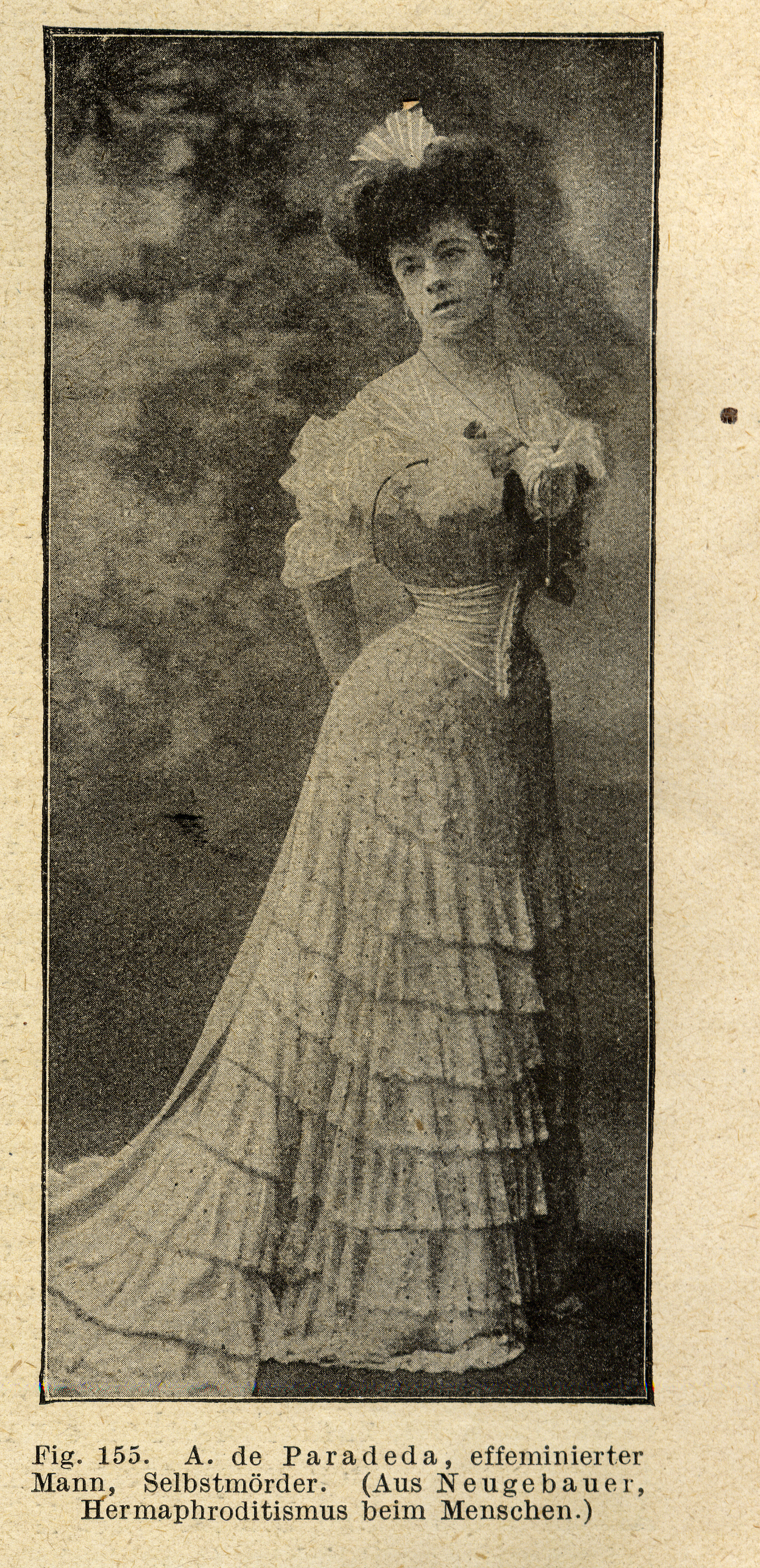 From the book: Albert Moll, Handbuch der Sexualwissenschaften, Verlag Von F.C. Vogel, Leipzig 1921. Picture by Stefano Bolognini.